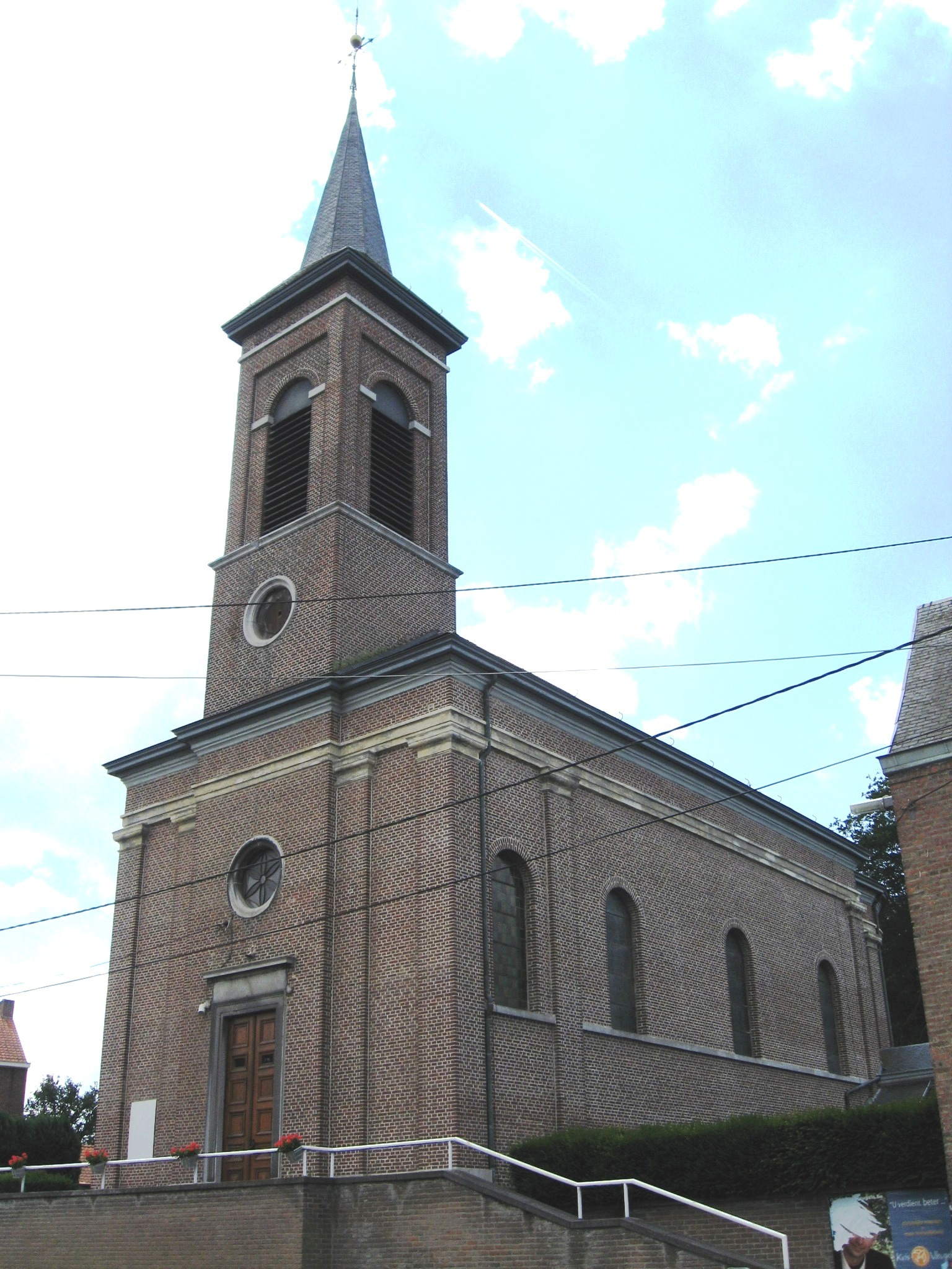 Church of Saint Alphons in Bommershoven, Borgloon, Limburg, Belgium